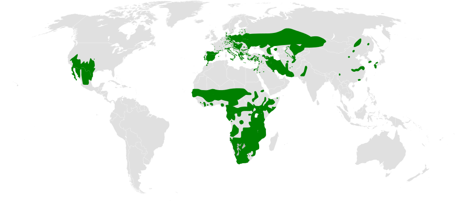 Remizidae distribution map; using BlankMap-World6.svg, based on